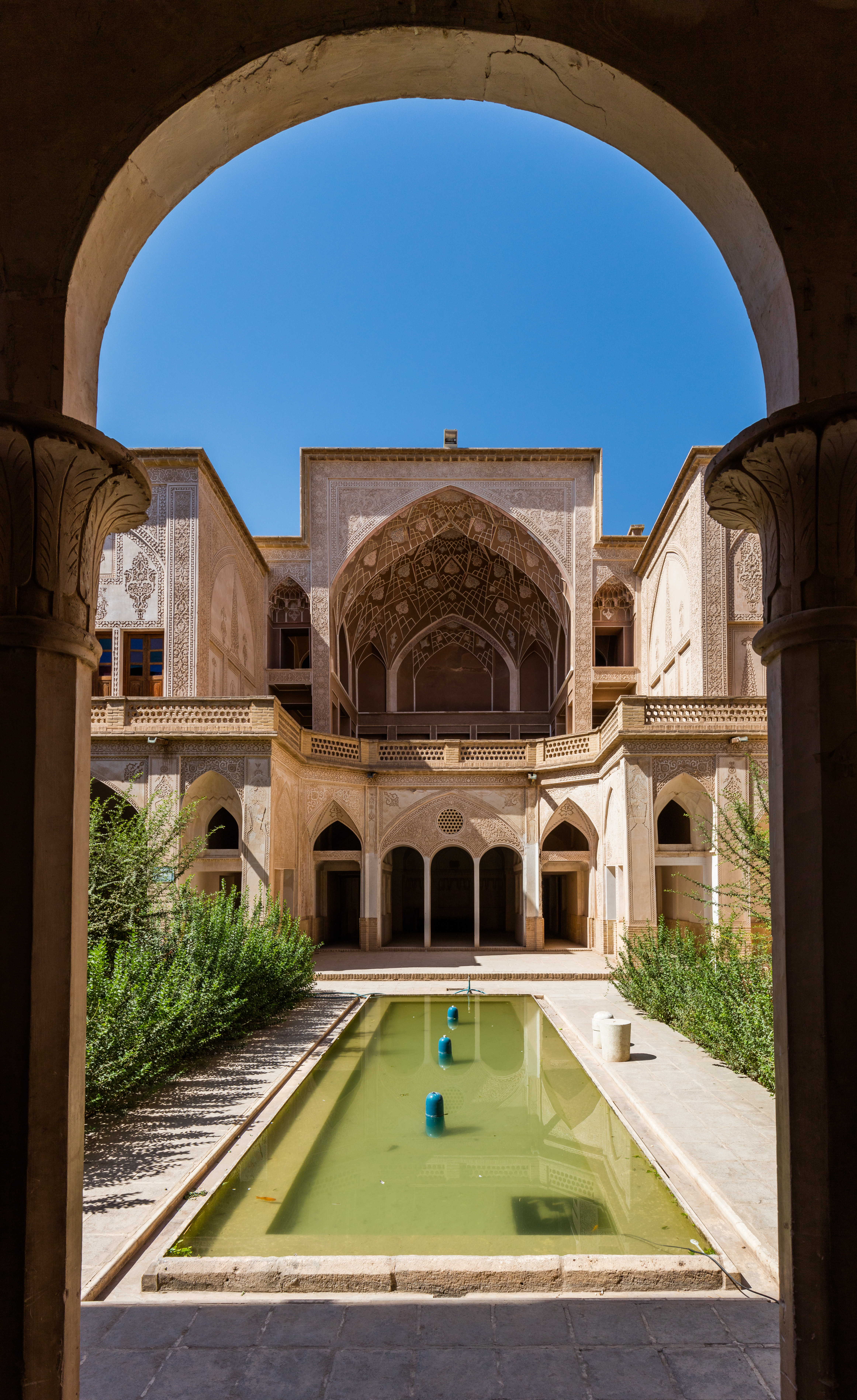 View of one of the six courtyards of the Abbāsi House, a large traditional historical house located in Kashan, Iran. Built during the late 18th century, it is said to have been the property of a famous cleric.